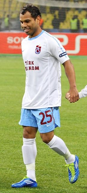 Alanzinho with Trabzonspor in 2011.